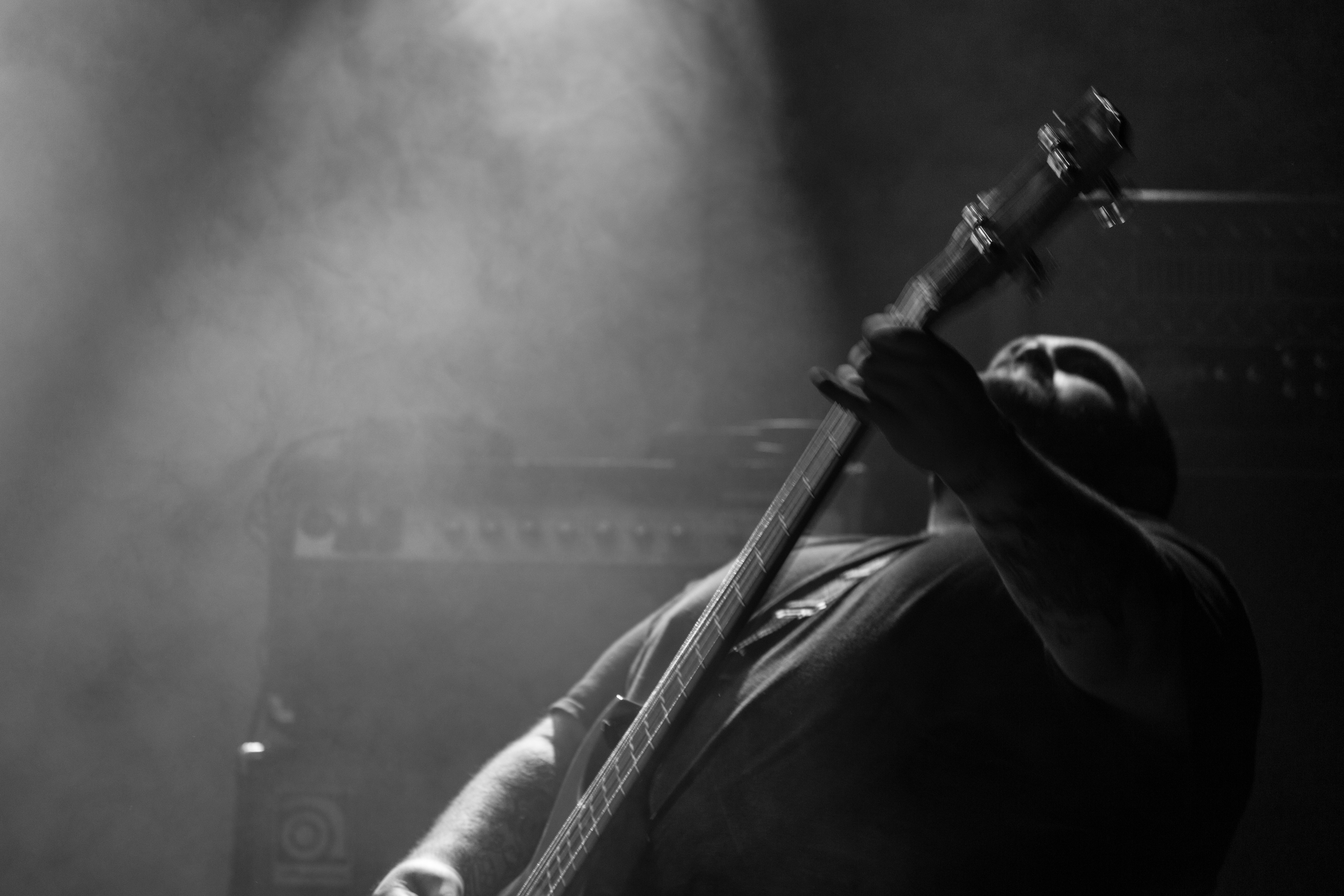 Primitive Man performing at Roadburn Festival, april 2015